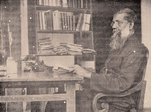 Swamy Gnanapirakasar (1875 - 1947), Ceylon Tamil scholar